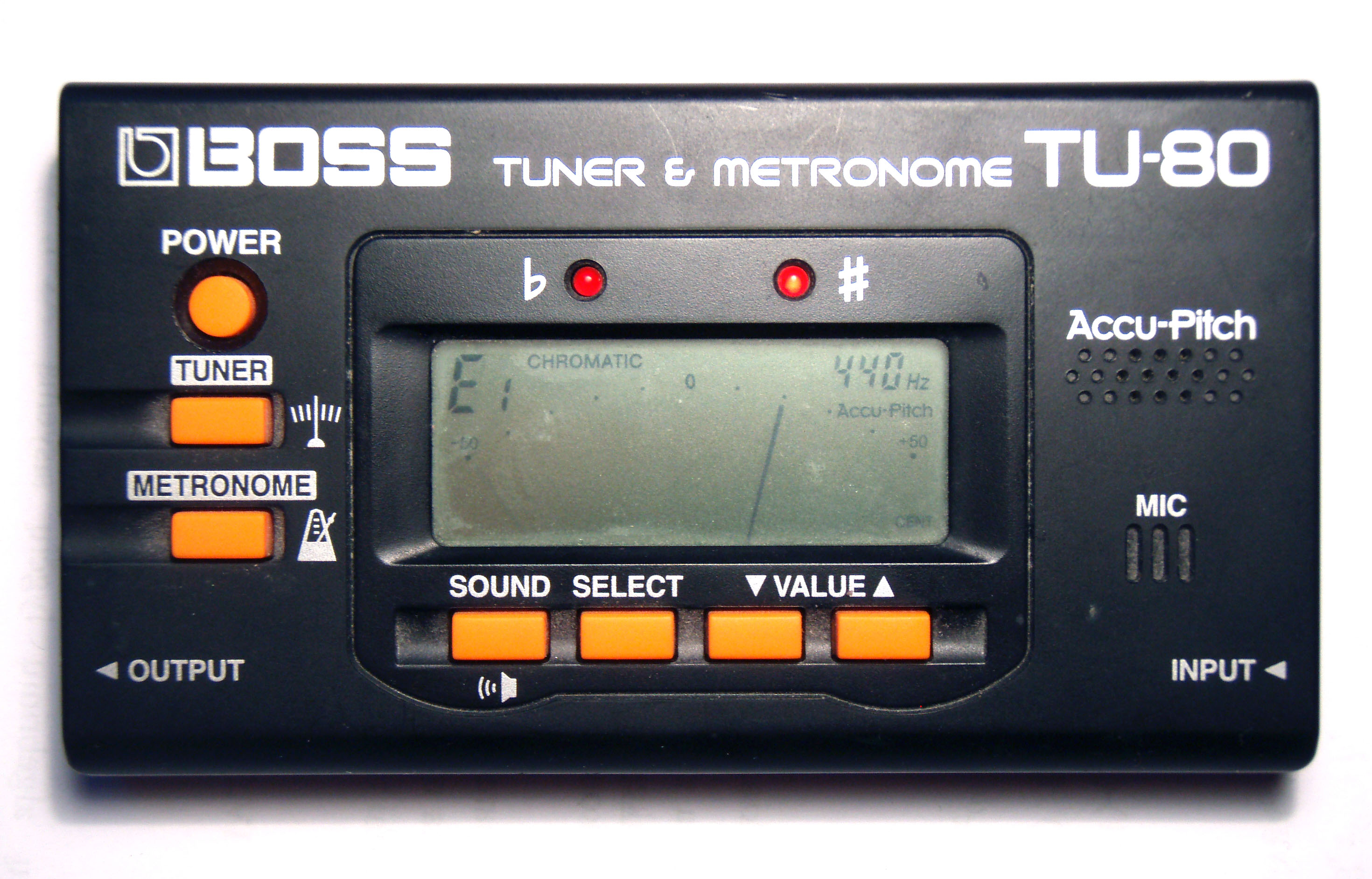 Boss TU-80 Tuner & Metronome